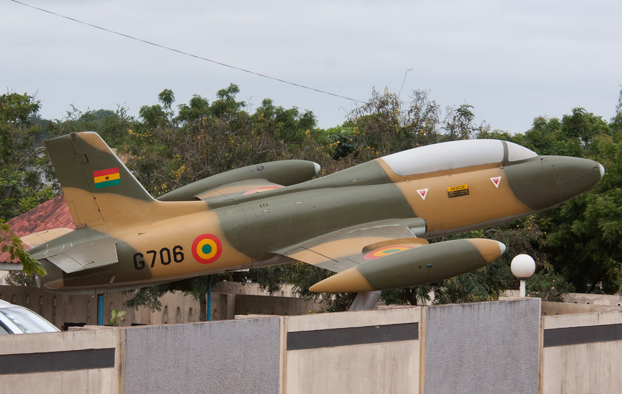 Ghana Air Force Officers Accra Mess Gate Guardian Aermacchi Mb 326 G706